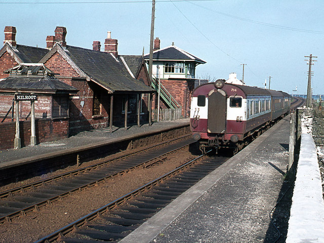 Train at Kilroot station